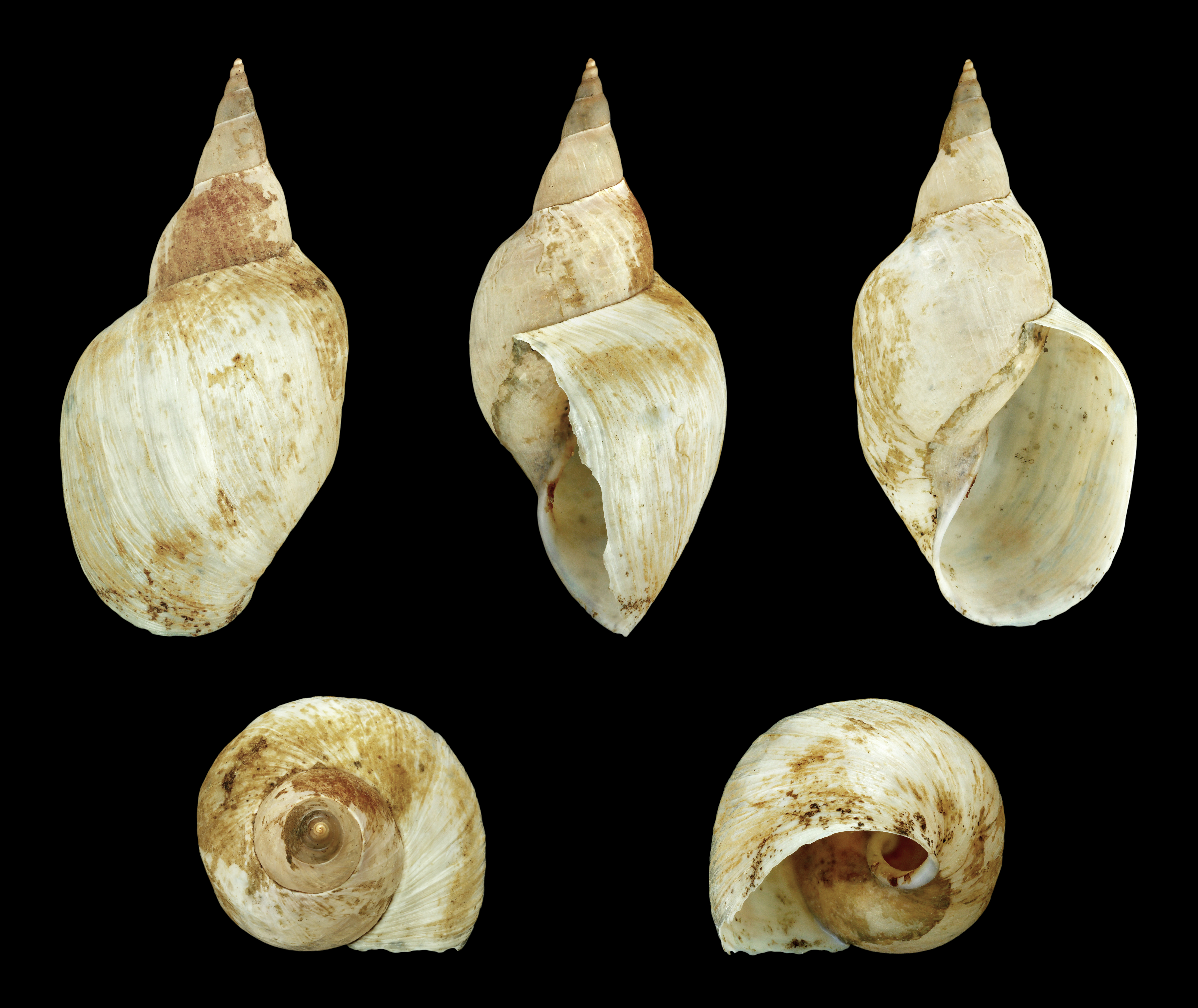 Great Pond Snail; Length 4.8 cm; Originating from the lake Kleiner Bodensee, Karlsruhe, Germany; Shell of own collection, therefore not geocoded.Dorsal, lateral (right side), ventral, back, and front view.